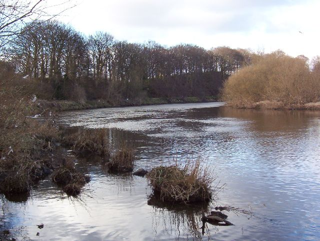 Island on the Clyde At Daldowie and the confluence of Clyde and the Rotten Calder. for view from Daldowie bank.